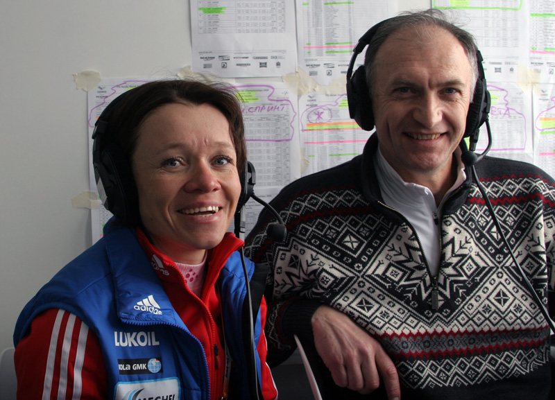 Evgenia Medvedeva and Andrey Kondrashov